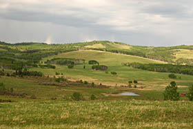 Foothills near Calgary, Alberta, Canada.